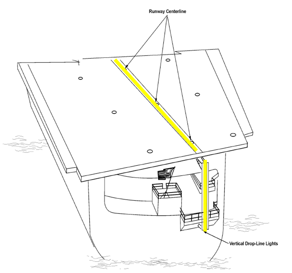 A drop line, with attached lights, aids in visual lineup with the aircraft carrier flight deck. In this graphic, the aircraft view is left of centerline.